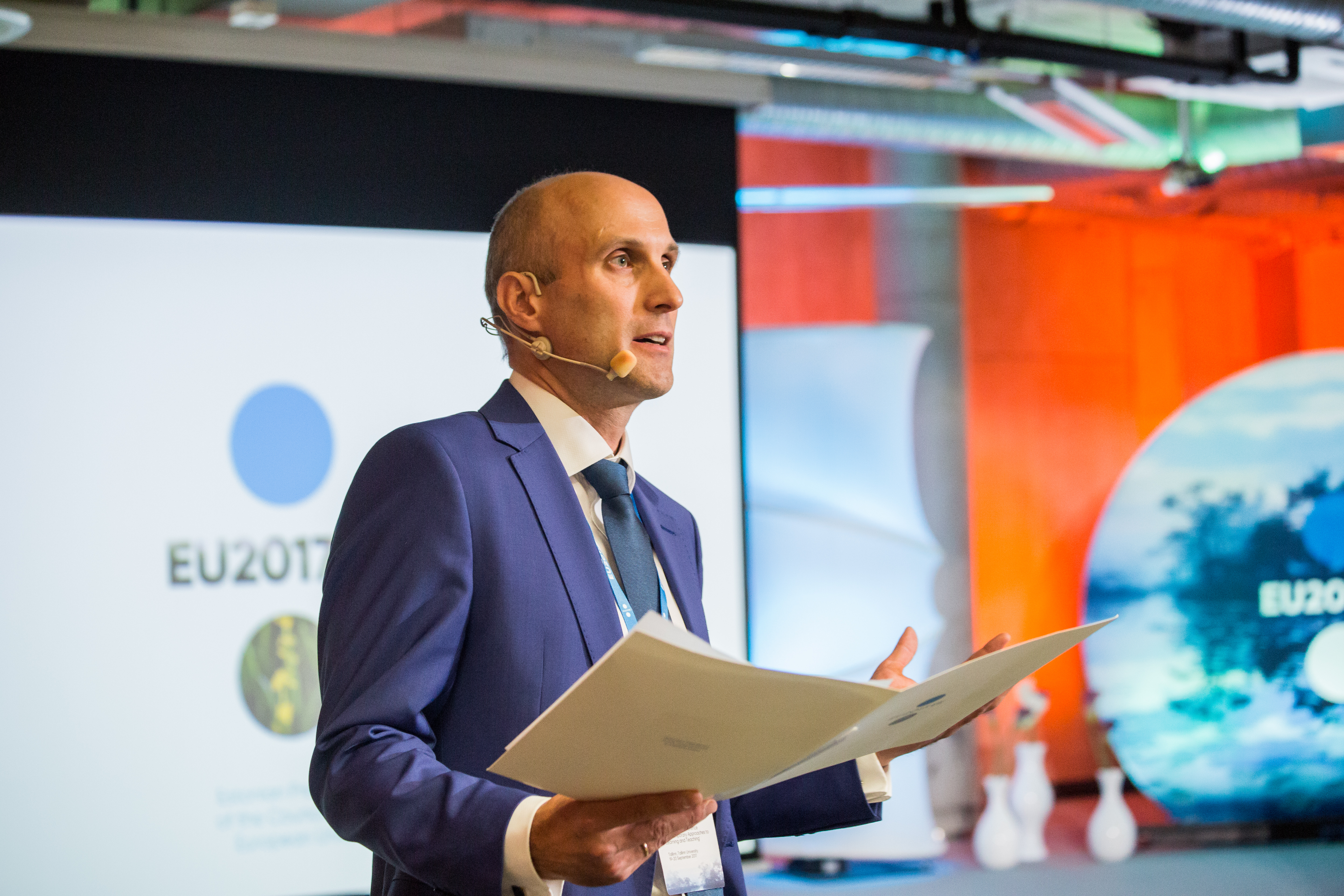 Prof. Margus Pedaste, Head of the Pedagogicum of the University of Tartu